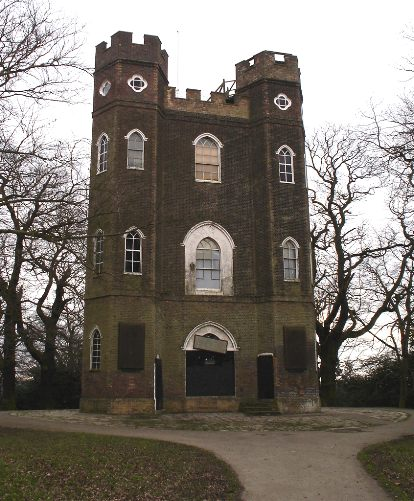 Severndroog Castle, London. Category:Images of castles Category:Images of England